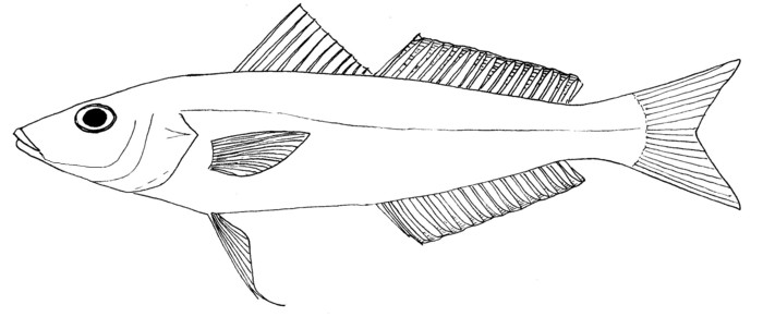 The Bay whiting, Sillago ingenuua. Hand drawn diagram based on McKay (1985) and fishbase photograph